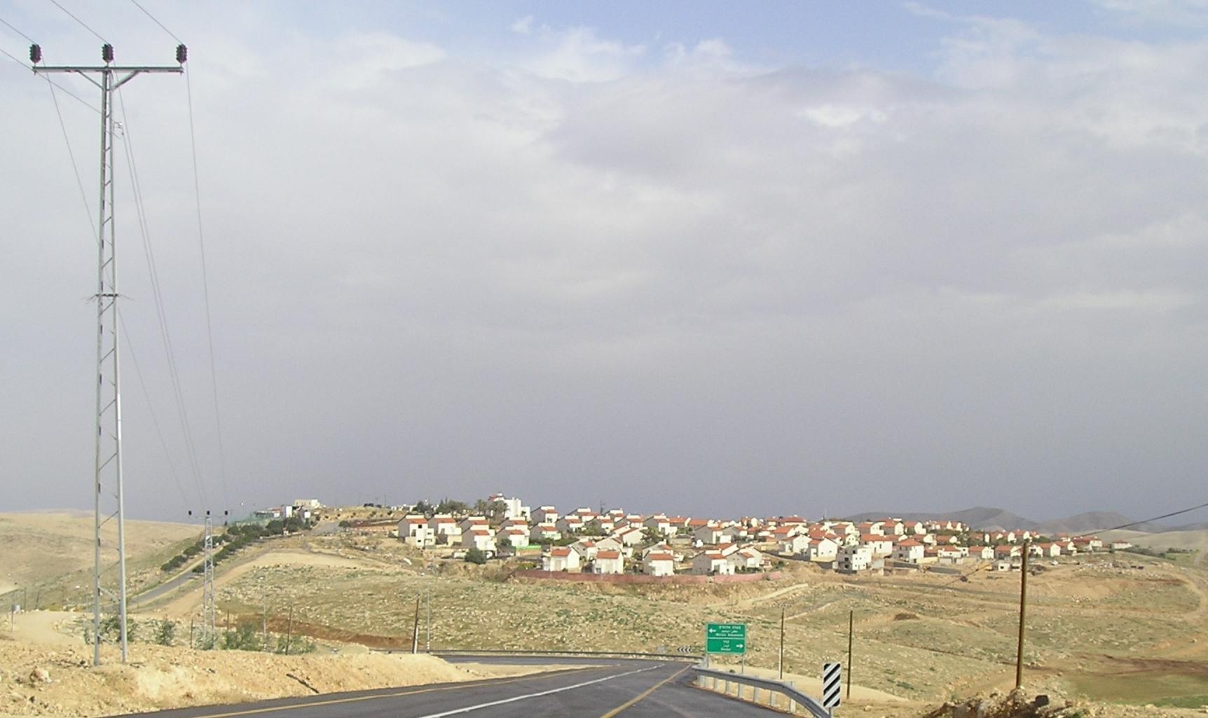 Israeli settlement of Kedar, 2009